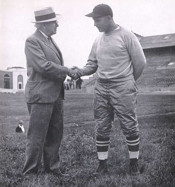 Charles "Cy" Sherman (the "father of the Cornhuskers") and Nebraska Cornhuskers football coach Glenn Presnell